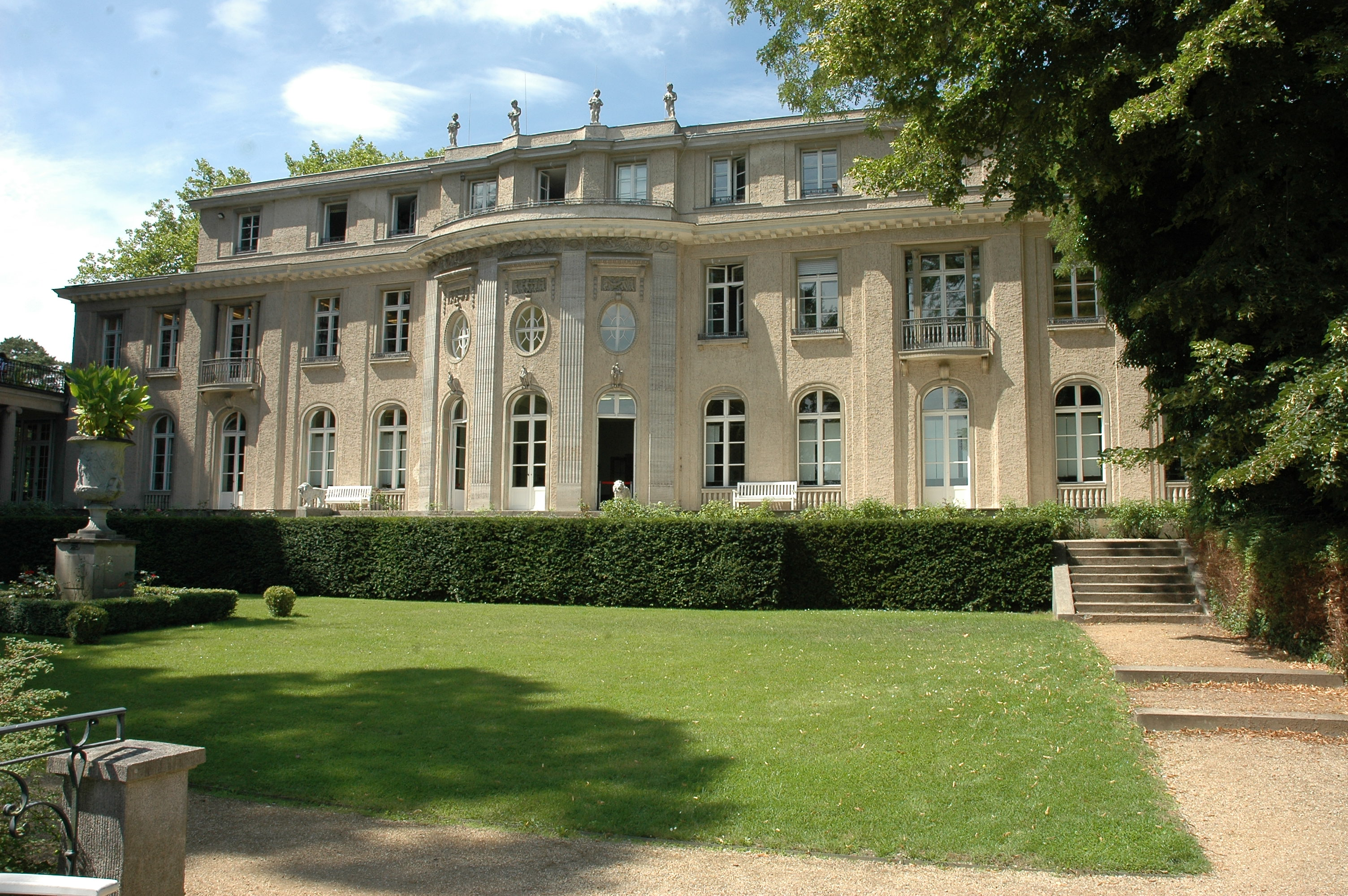 The building where the Wannsee conference took place